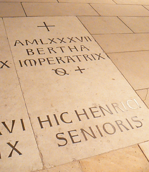 Bertha of Savoy